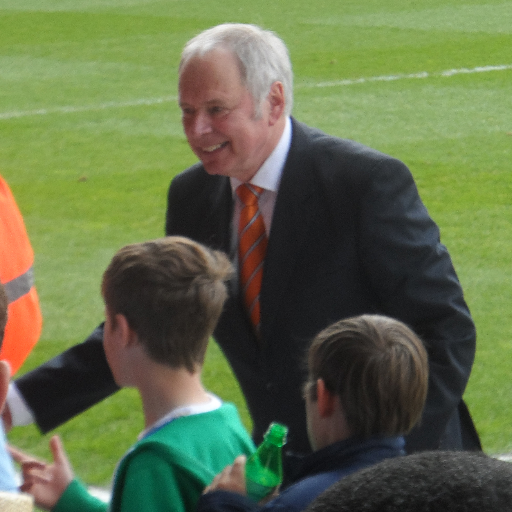 Nick Owen talks to Luton Town supporters before the match against Forest Green Rovers on 21 April 2014